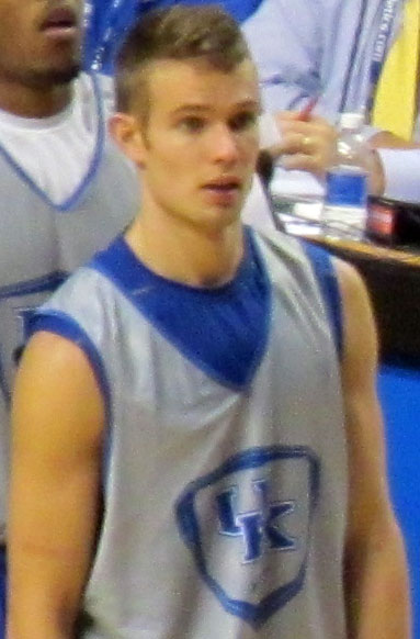 Jarrod Polson at the 2013 Kentucky Wildcats Blue-White scrimmage in Rupp Arena